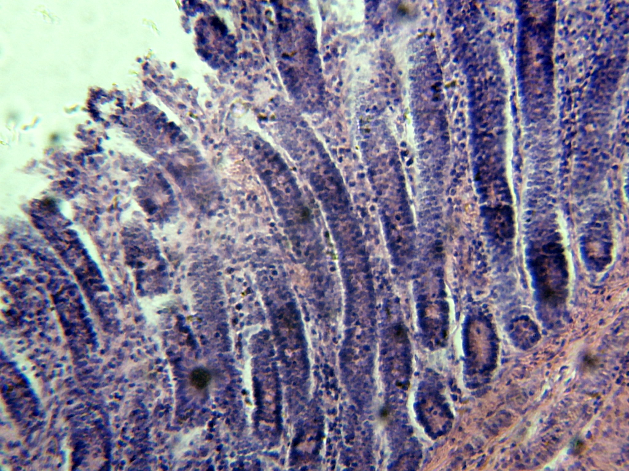 Intestine Wall